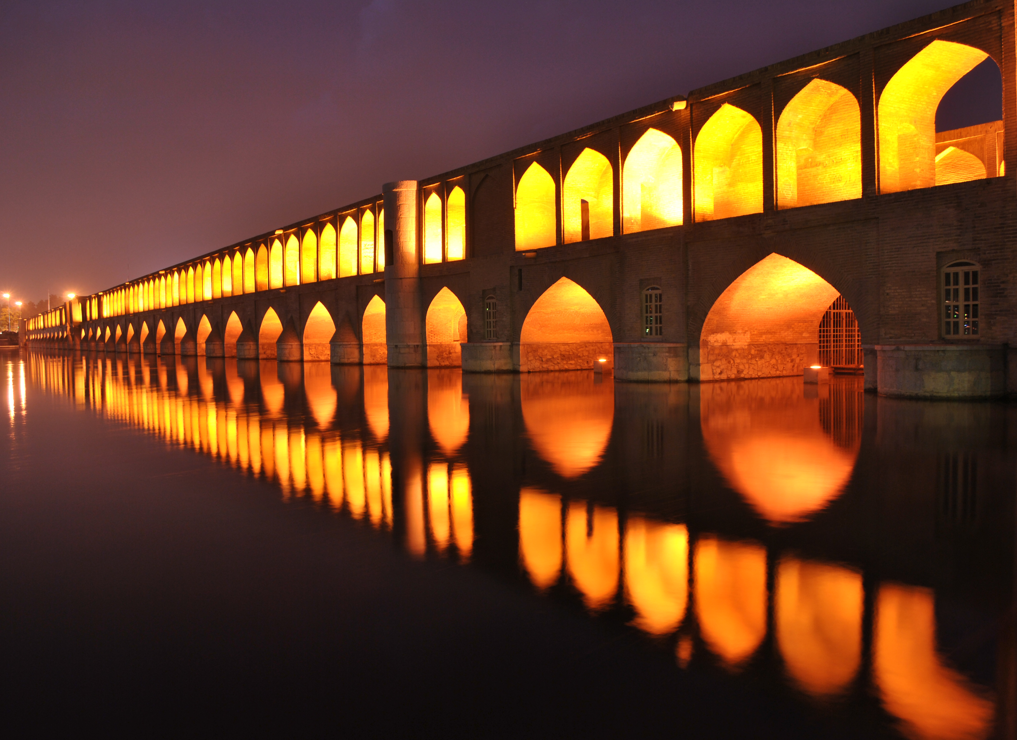 Si-o-se Pol ("33 Bridges" or "the Bridge of 33 Arches"), also called the "Allah-Verdi Khan Bridge", is one of the eleven bridges of Isfahan, Iran. It is highly ranked as being one of the most famous examples of Safavid bridge design.